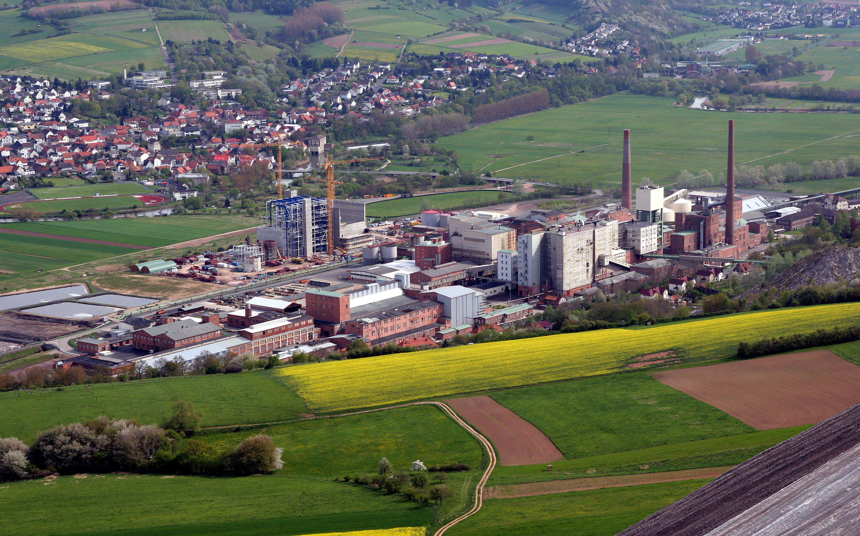 The Potassium-Plant Wintershall owned by K+S Kali GmbH in Heringen (Werra, Germany). The worlds largest potassium-plant. Picture made from the Monte Kali. In the Background the city of Heringen